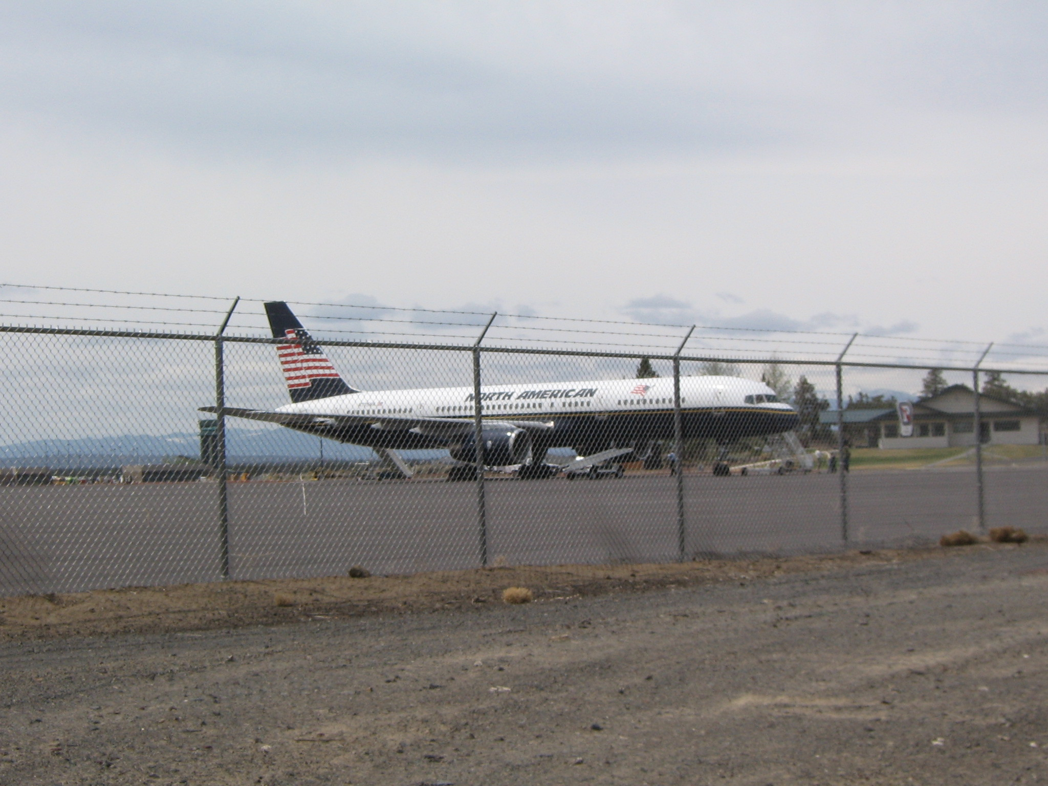 North American Airlines 757-200 at the Redmond airport USFS aerial firefighting ramp. This aircraft was chartered to carry Sen. Barack Obama and members of his staff and press, during his 2008 presidential bid